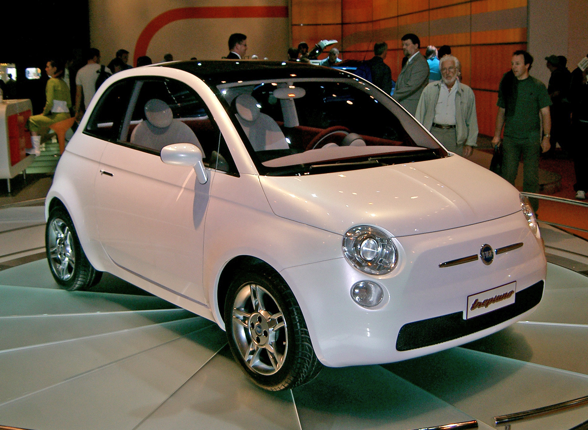 Fiat Trepiuno concept car